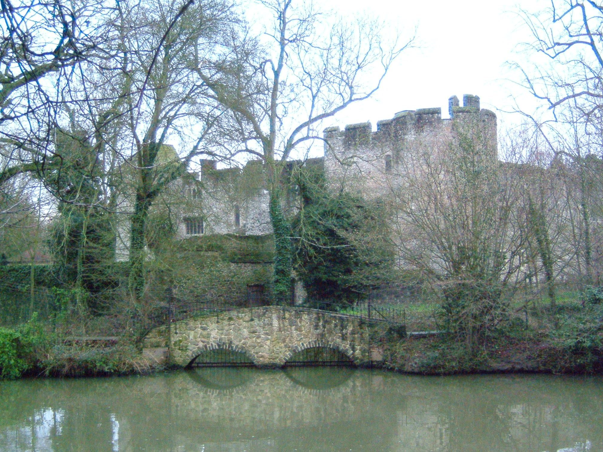 Allington Castle, Kent from the opposite bank of the River Medway